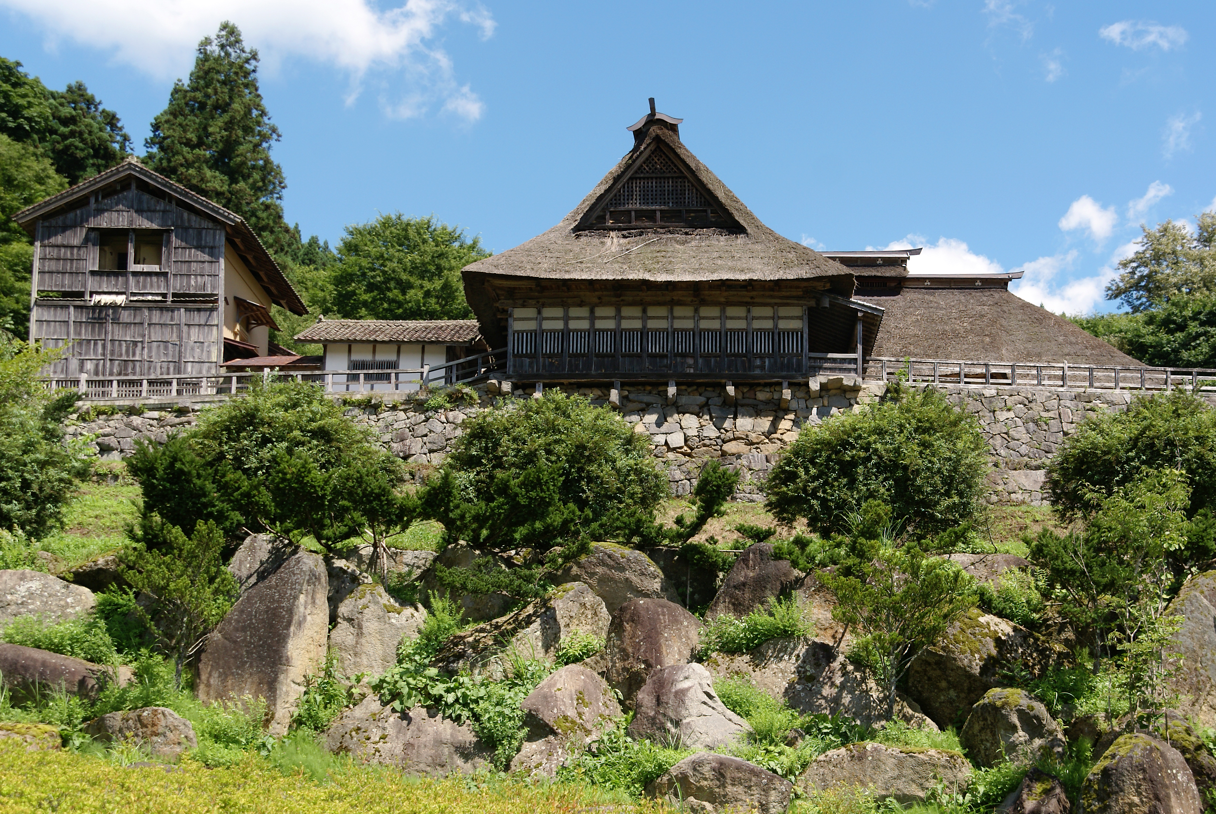 Chiba curvature house in Tono, Iwate prefecture, Japan